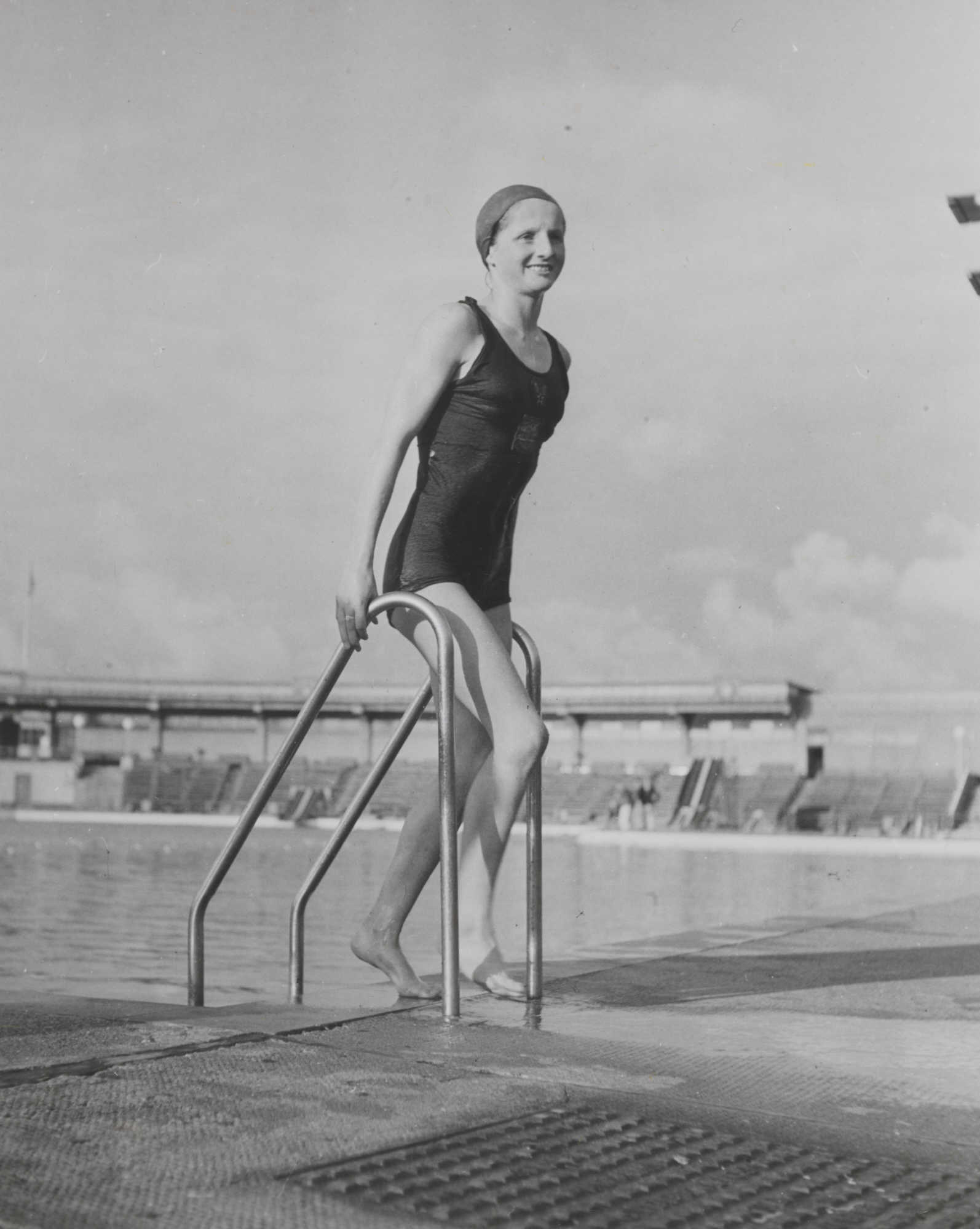 Gibson was born in 1931 in Motherwell and was inducted into the Scottish Sports Hall of Fame in 2008. She won bronze in the 400m Freestyle at the 1948 Olympics. Daily Herald Archive at the National Media Museum We're happy for you to share this digital image within the spirit of The Commons. Certain restrictions on high quality reproductions of the original physical version of apply though; if you're unsure please visit the National Media Museum website. For obtaining reproductions of selected images please go to the Science and Society Picture Library.